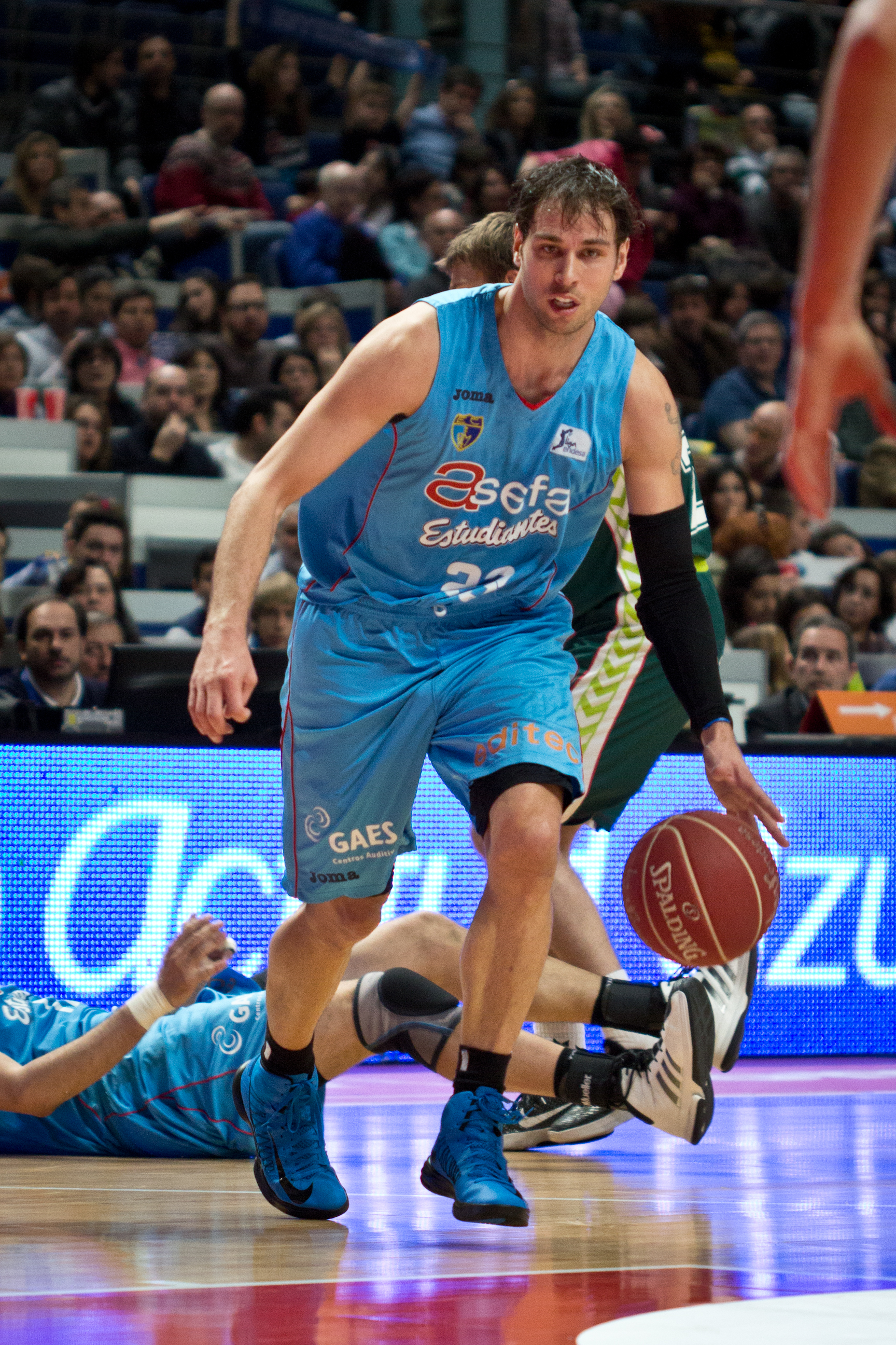 Carl English. Game Estudiantes vs Unicaja Málaga.